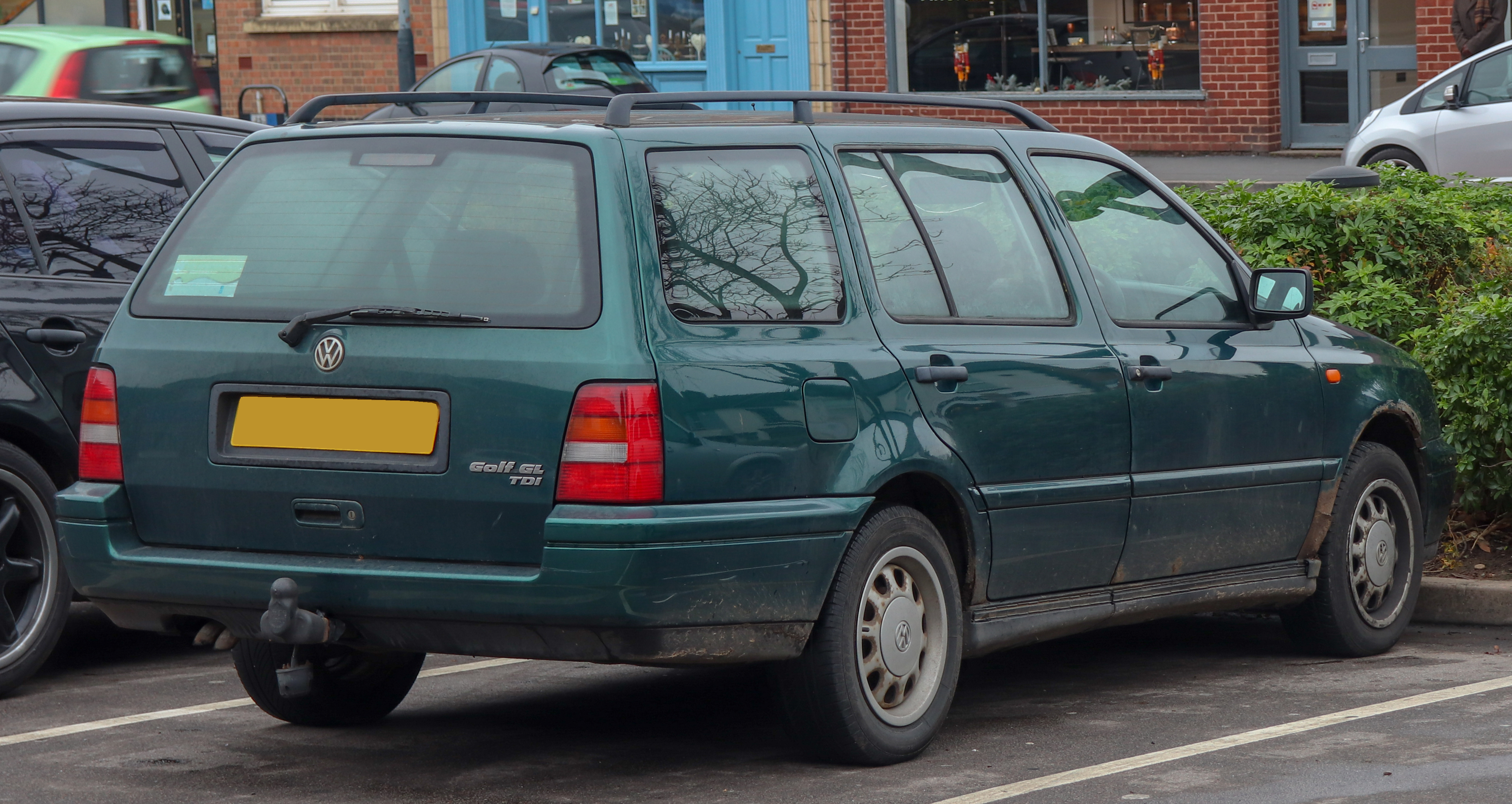 1997 Volkswagen Golf Variant GL TDi 1.9